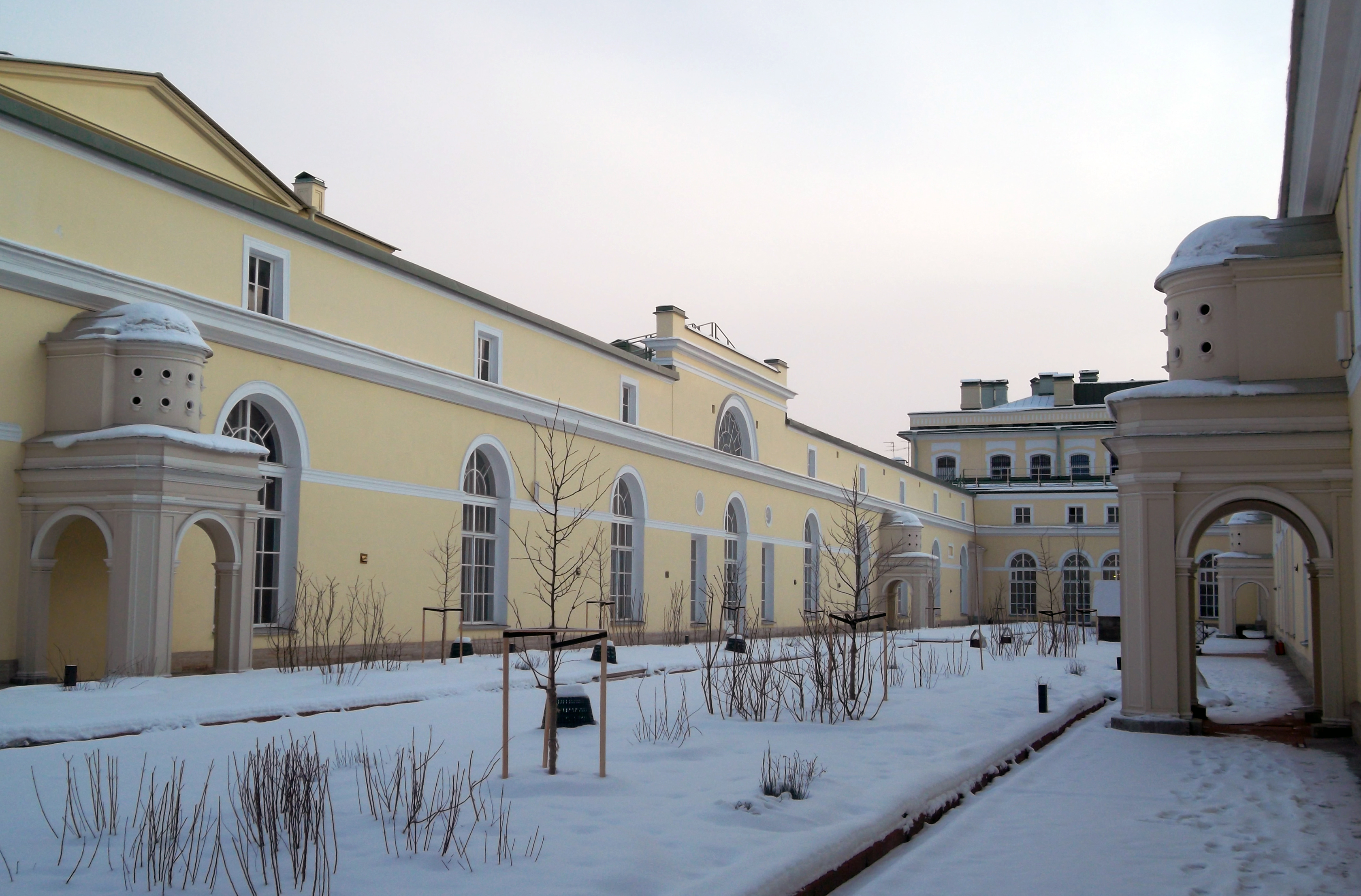 Suspended garden of the Small Hermitage. St. Petersburg